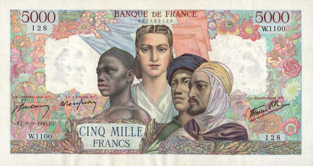 France 5000 francs Union française 01